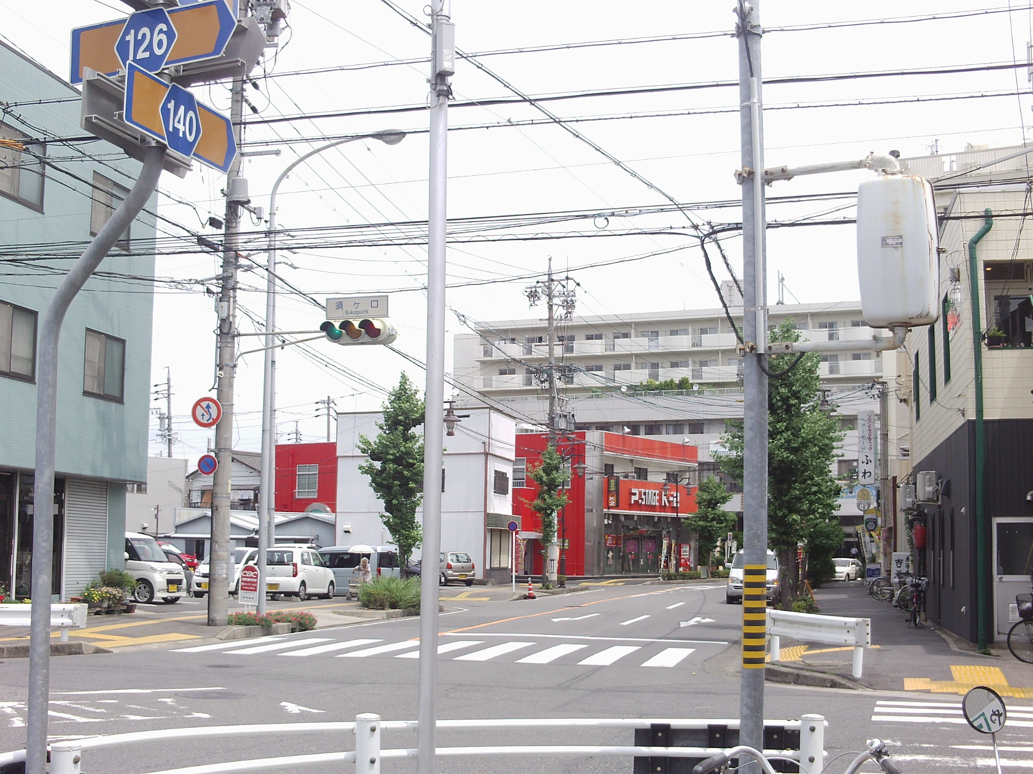 Aichi prefectural road No.140 in Sukaguchi, Kiyosu, Aichi.